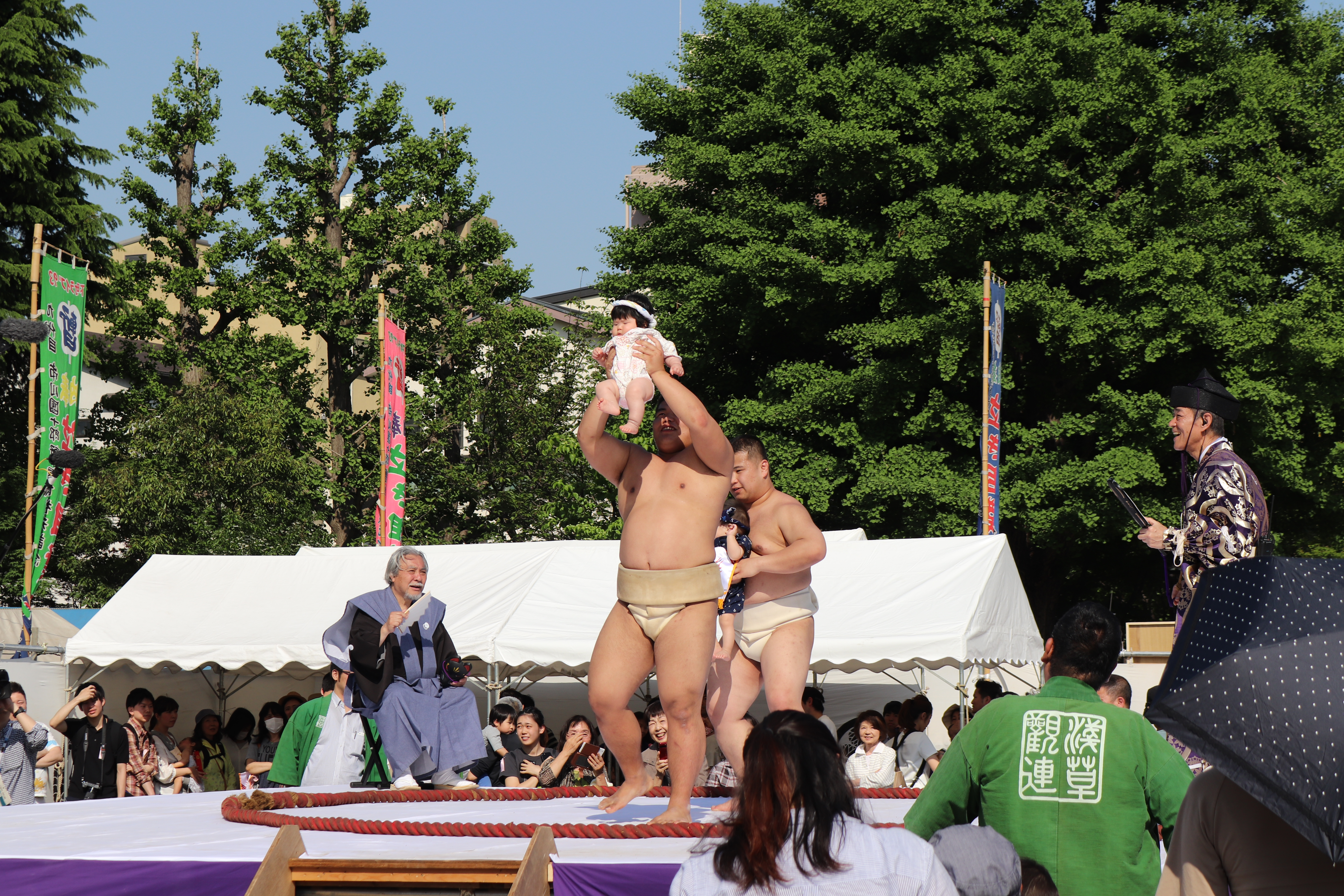 At the 2018 Naki Sumo Crying Baby Festival at Sensoji Temple, Asakusa, Tokyo. The winning infant is raised in the air by a student sumo of the Sensoji Temple.